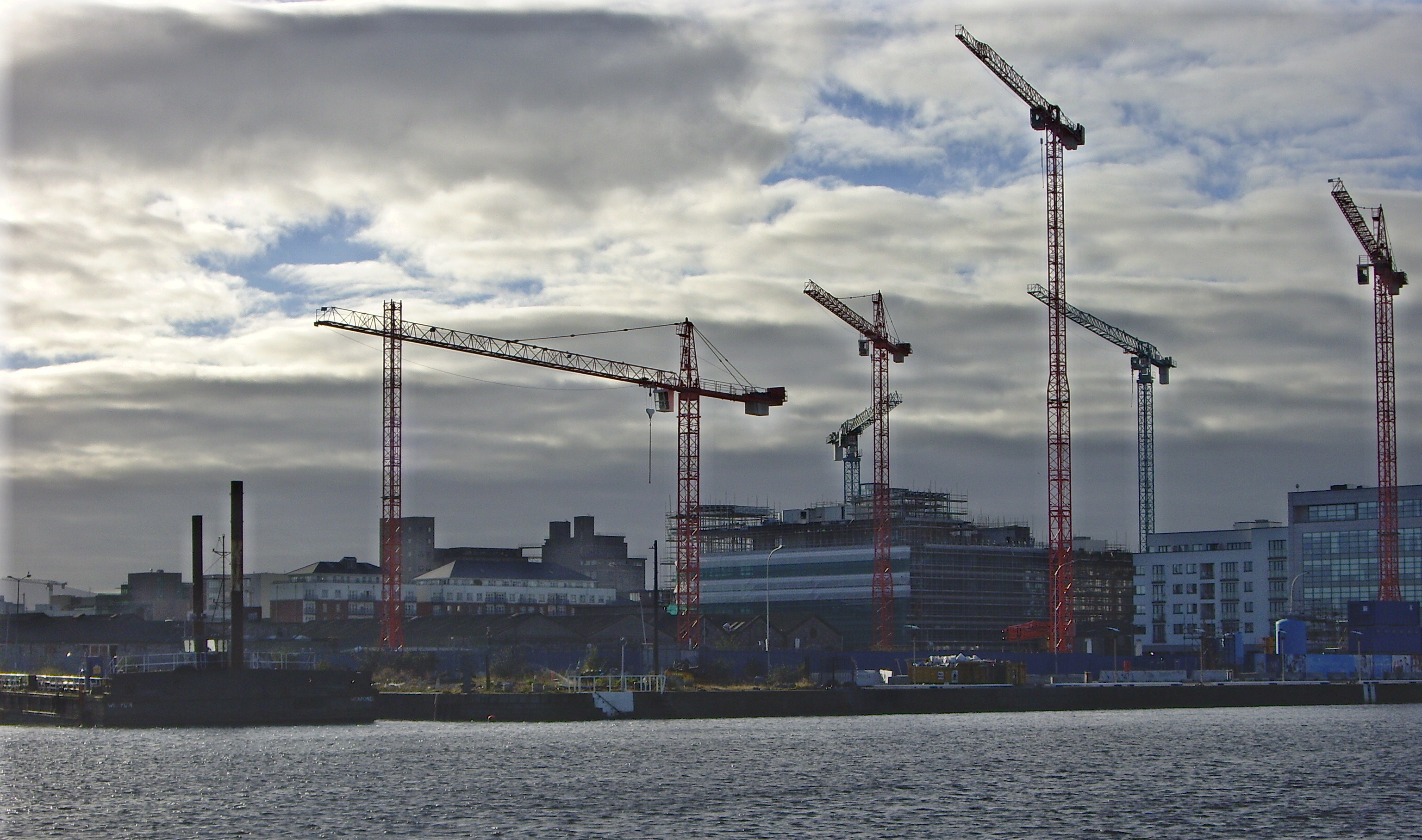 U2 Tower site preparing for construction, taken from north of eastlink bridge